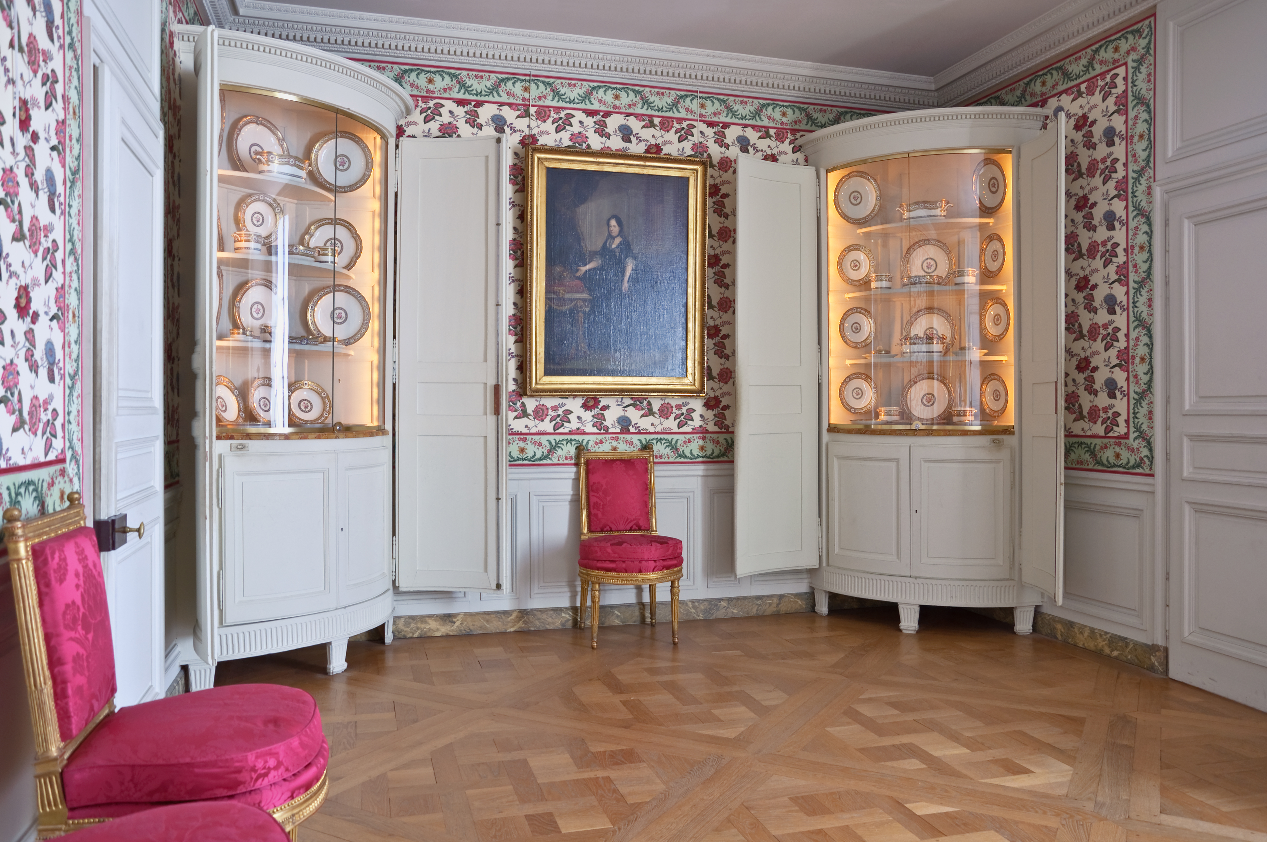 Palace of Versailles - Petit appartement de la Reine - The dining room The two corner dressers exhibit Sèvres porcelain dinnerware from the service with decoration « riche en couleurs et riche en or » ordered in 1784 for the queen Marie-Antoinette.